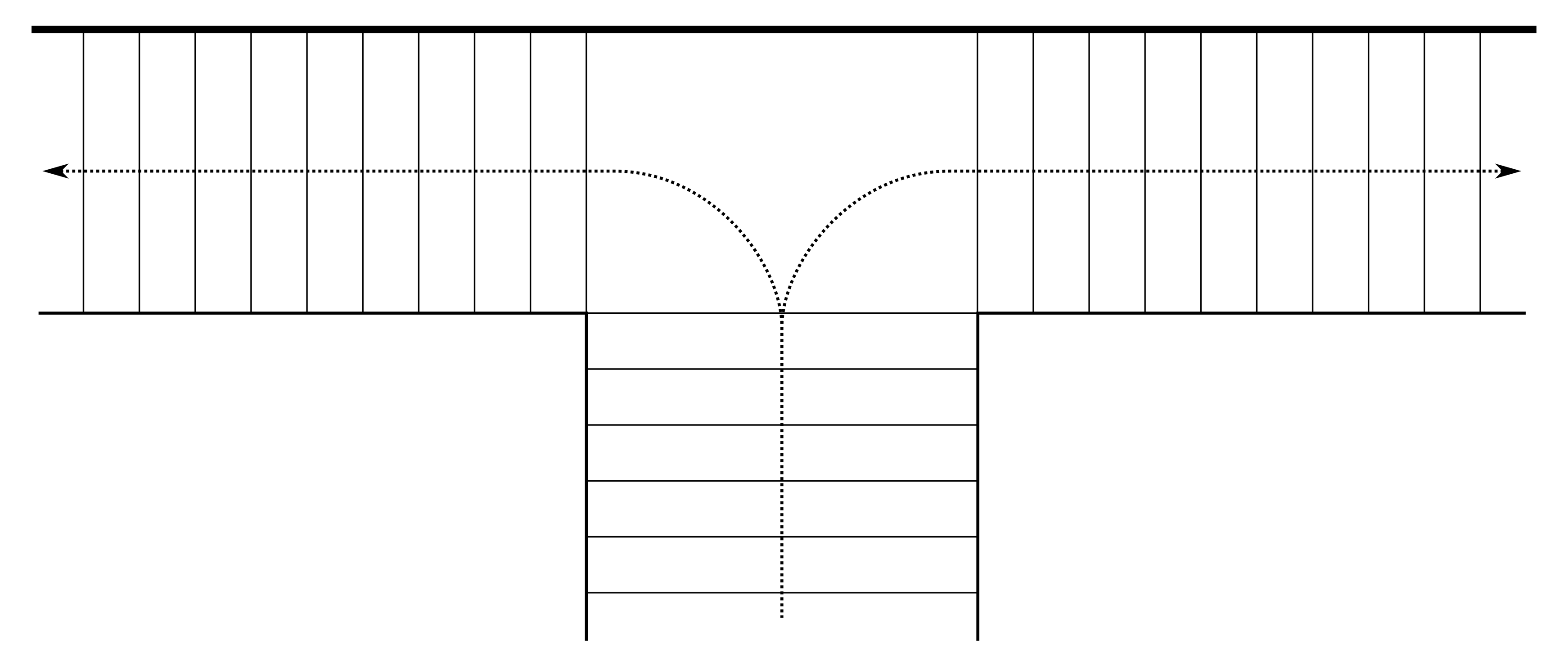 Side flight stairs (?)